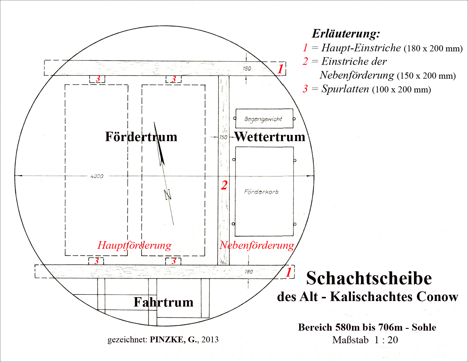 Cross section of Conow shaft.